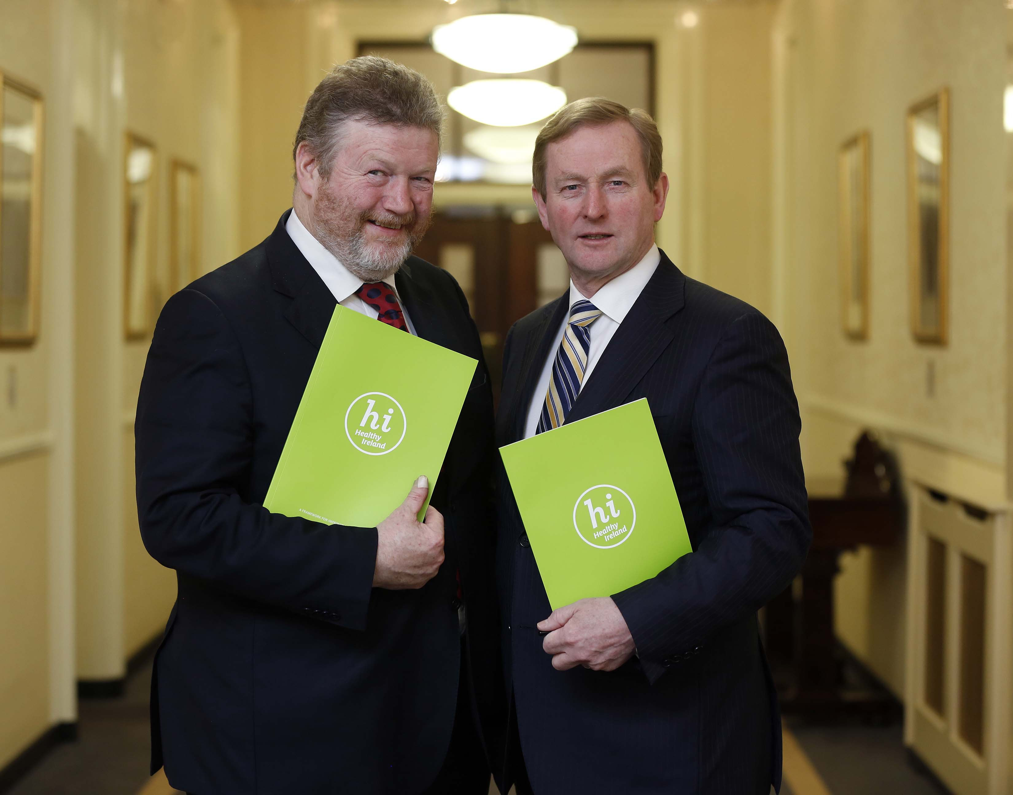 Minister for Health James Reilly and Taoiseach Enda Kenny at the publication of the "Healthy Ireland Framework" at Government Buildings, Dublin.